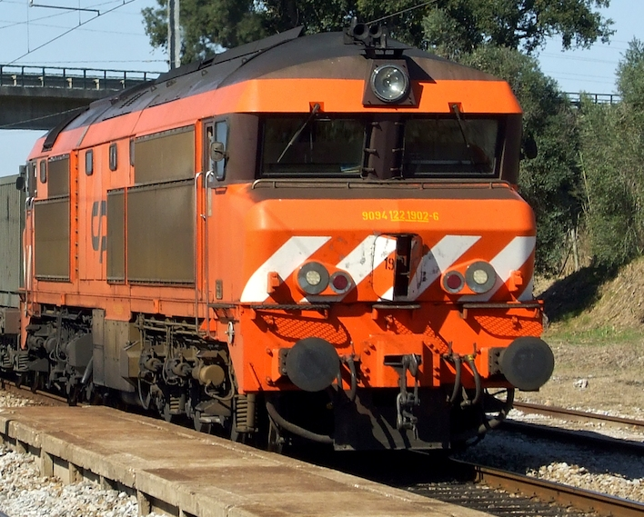 Portuguese Railways 1900 Series locomotive in Alcácer do Sal.